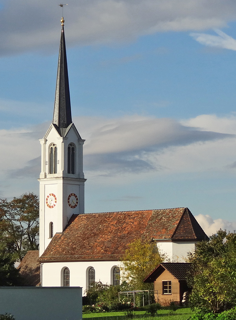 Church of Scherzingen, Switzerland